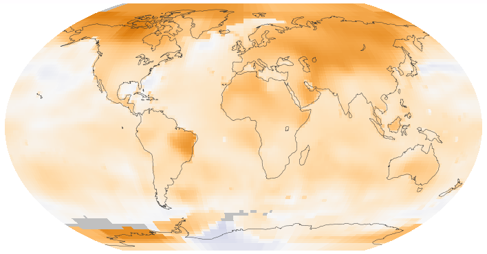 This map of the Earth shows surface temperature trends between 1950 and 2014. The key to this map is here. The map shows that most areas of the Earth have warmed, with warming particularly strong in polar regions. A few areas have experienced cooling. There has on average been more warming over land than oceans. Changes in global mean temperature may also be given relative to a base period of 1951 to 1980. This method shows that temperature anomalies (5-year mean) in the years 1950 and 2012 were -0.09 and 0.61 °C, respectively. References 13 February 2015: Tabular data, Global Annual Mean Surface Air Temperature Change, on: Data.GISS: GISS Surface Temperature Analysis: Analysis Graphs and Plots. NASA Goddard Institute for Space Studies, New York, NY, USA. Accessed 20 February 2015.